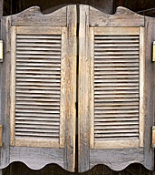 A saloon-style door